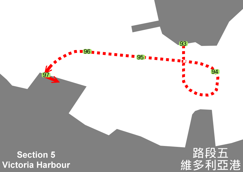 2008 Summer Olympic Torch Relay in Hong Kong, Section 5, Victoria Harbour